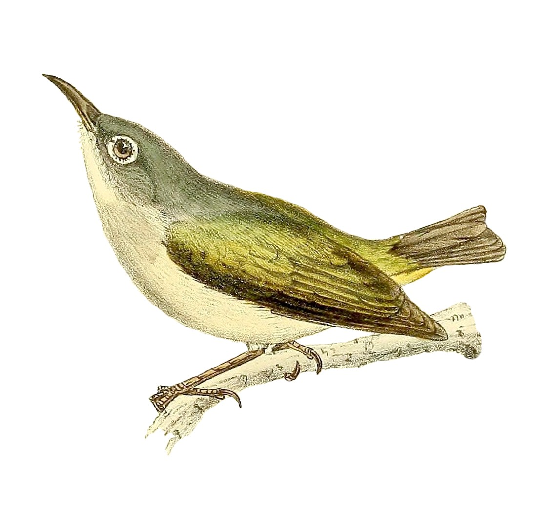 Zosterops mauritanica = Zosterops chloronothos (Mauritius Olive White-eye)